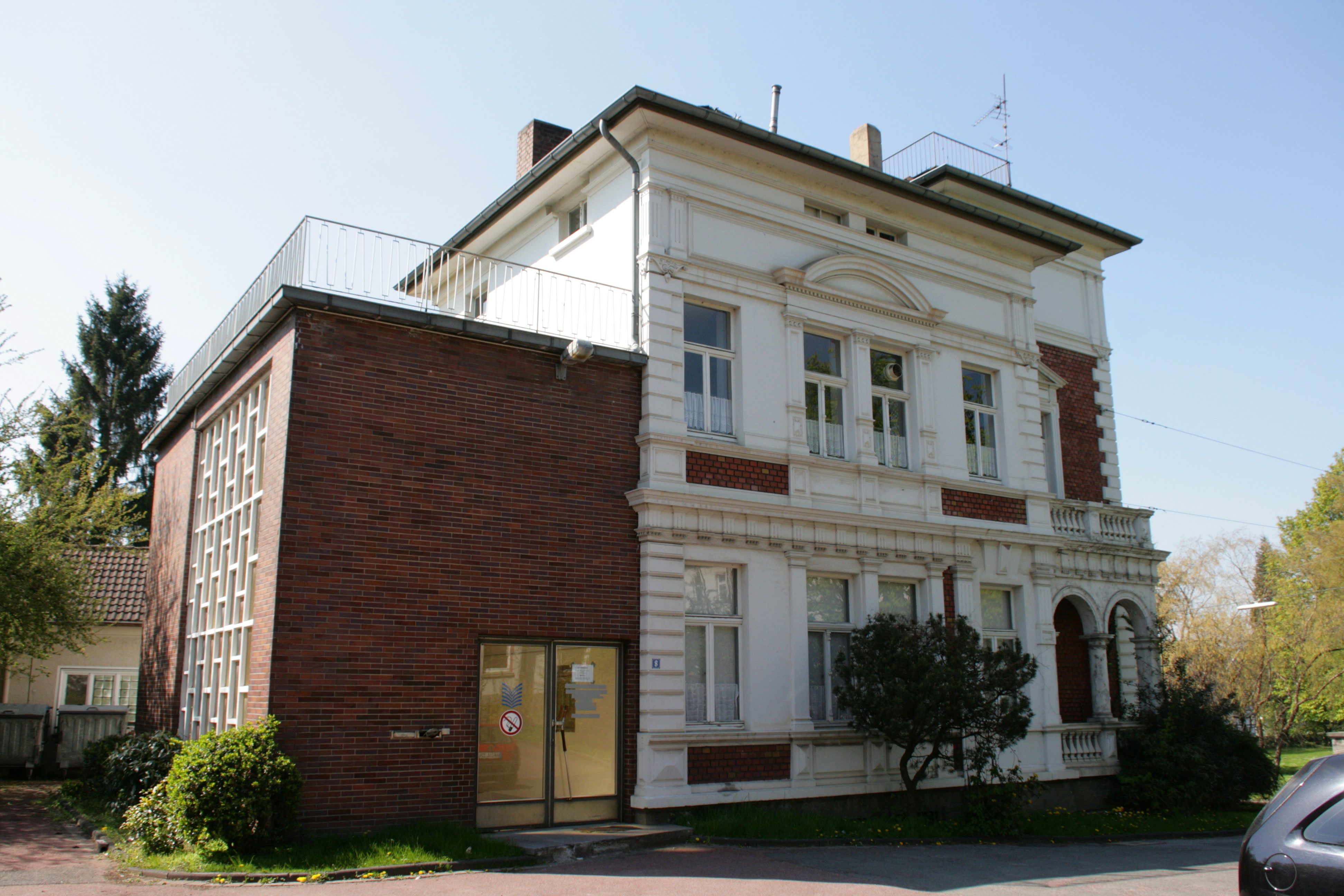 Bredenscheider Straße 8 in Hattingen